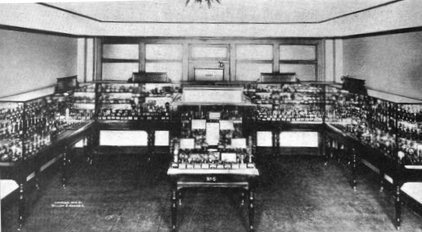 A display room at the Headquarters of the American Institute of Electrical Engineers in New York City.